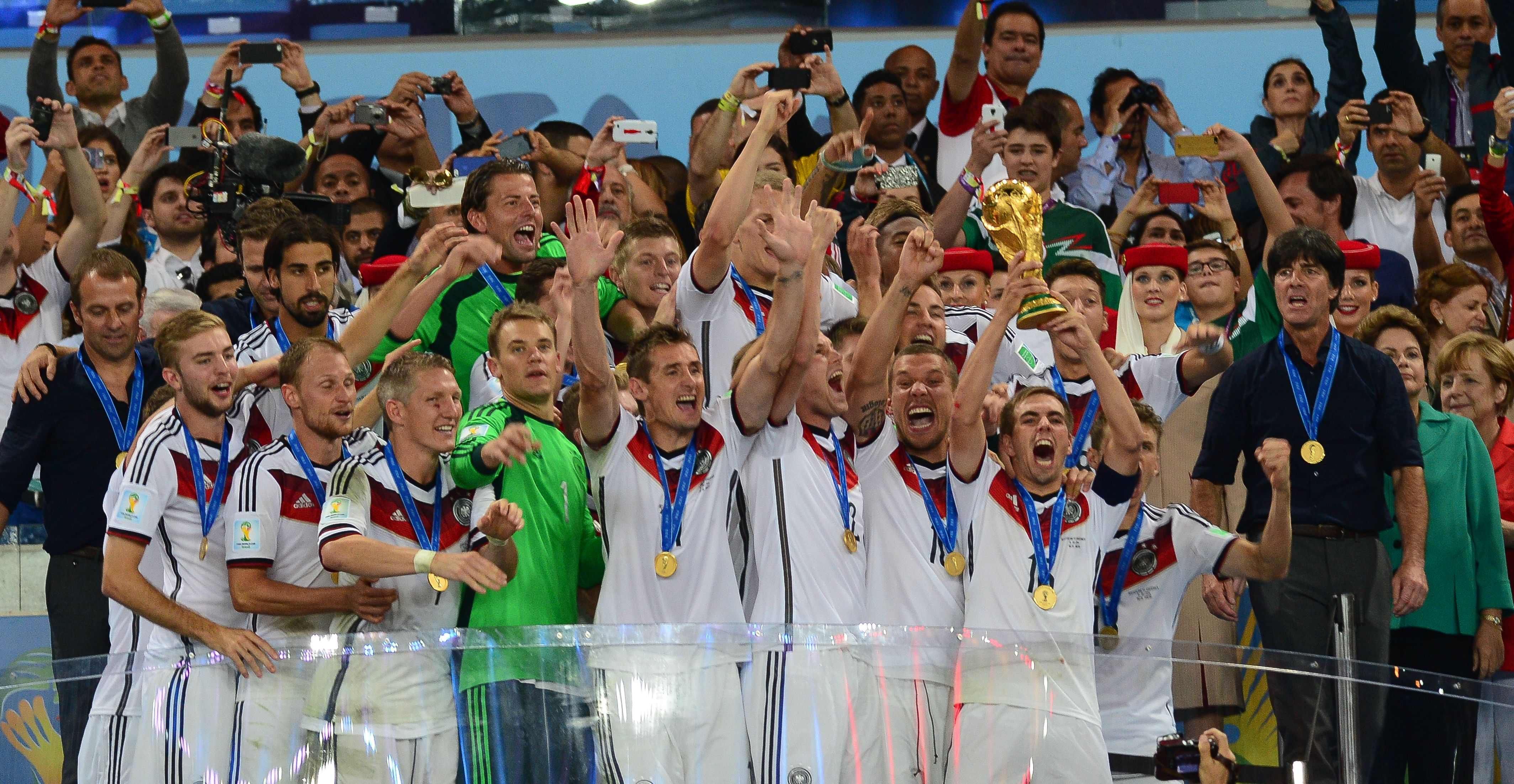 German captain, Philipp Lahm lifts the 2014 FIFA World Cup after beating Argentina 1-0 in the final in extra-time